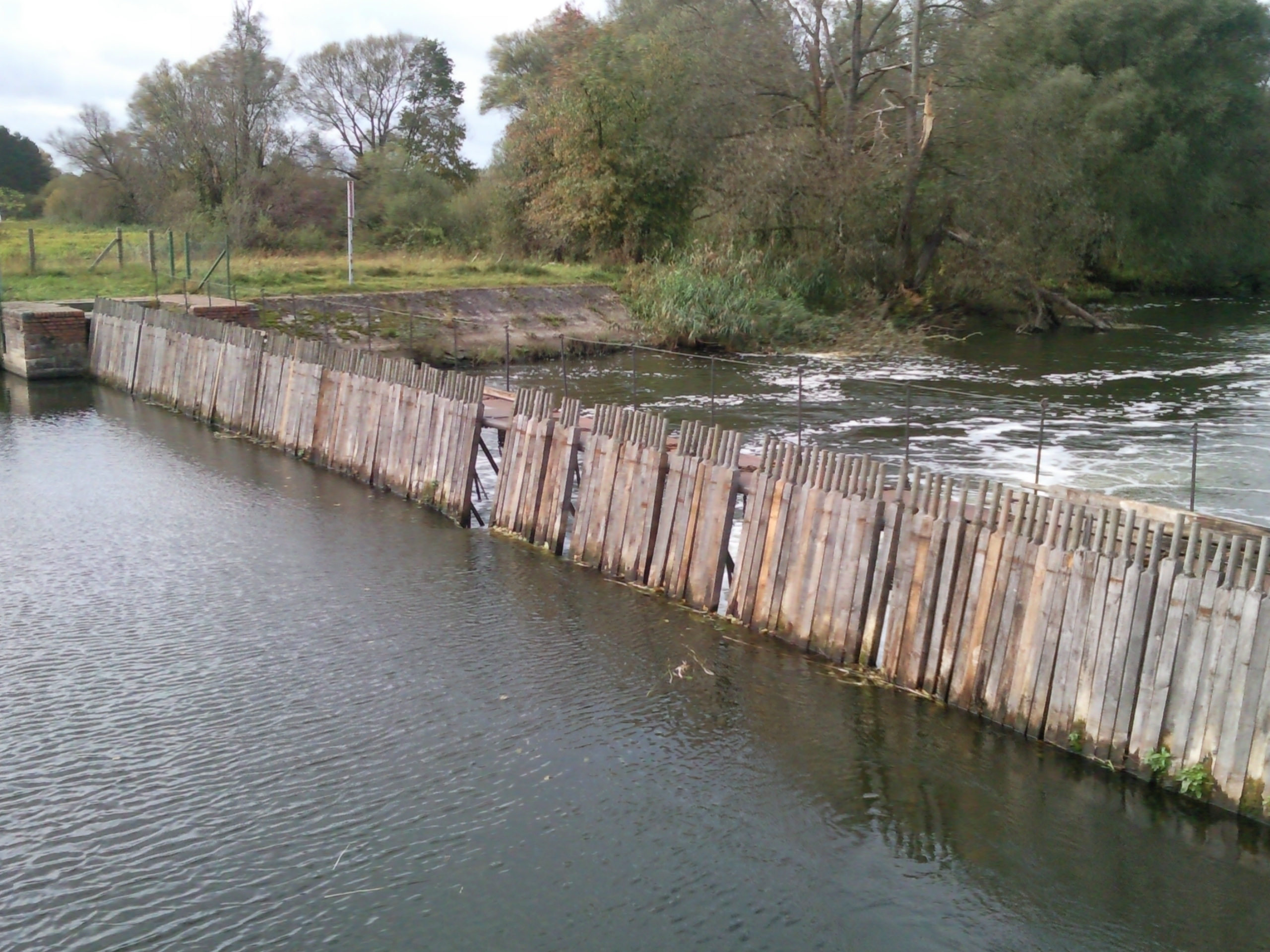 Needle dam, Neubruck (Spree) in Germany (Brandenburg)